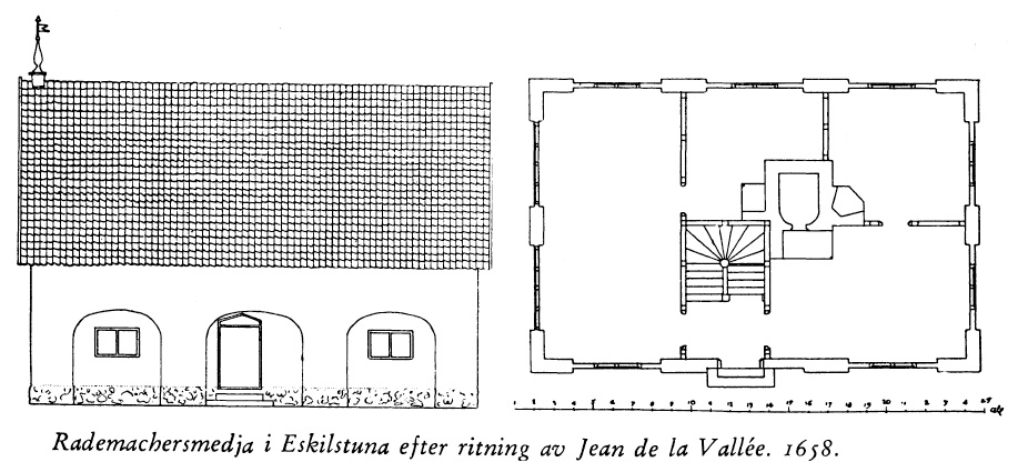 Rademachersmithy in Eskilstuna after a drawing by Jean de la Vallé (1624-1696), in 1658.